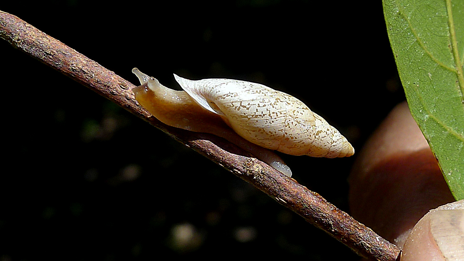 Bahiensis bahiensis (Moricand, 1833)